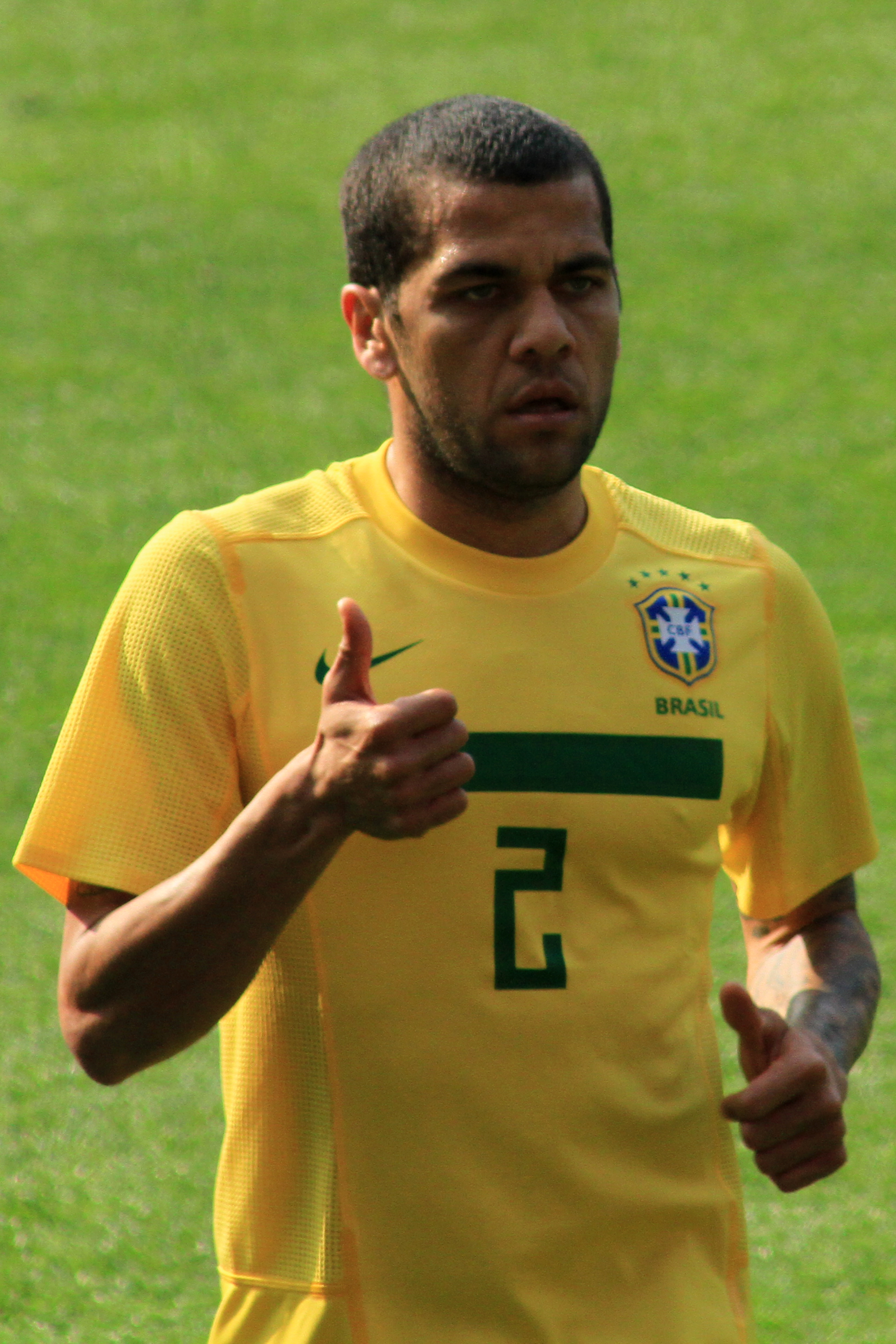 Brazilian footballer Daniel "Dani" Alves da Silva during the Scotland v Brazil international match played in London on 27 March 2011.